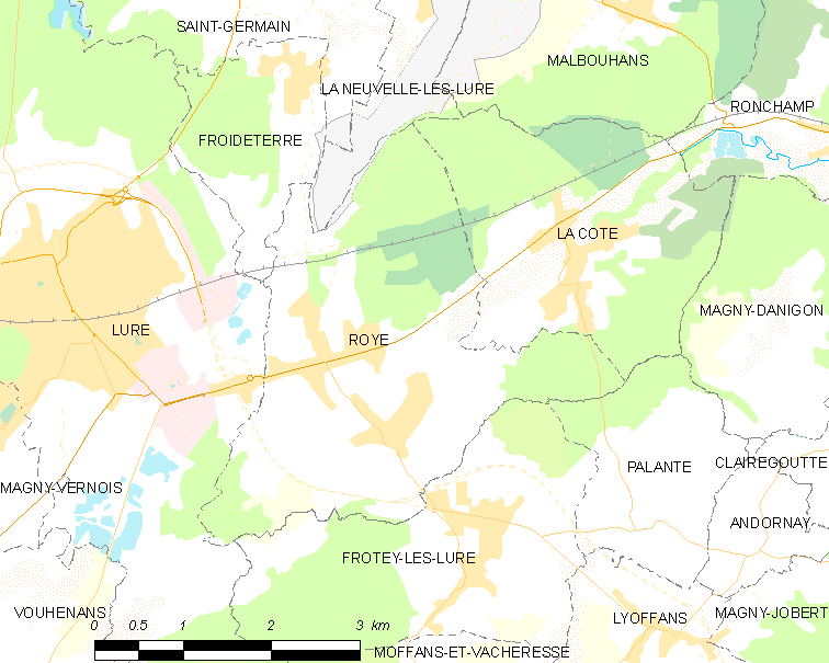 Map of French municipality